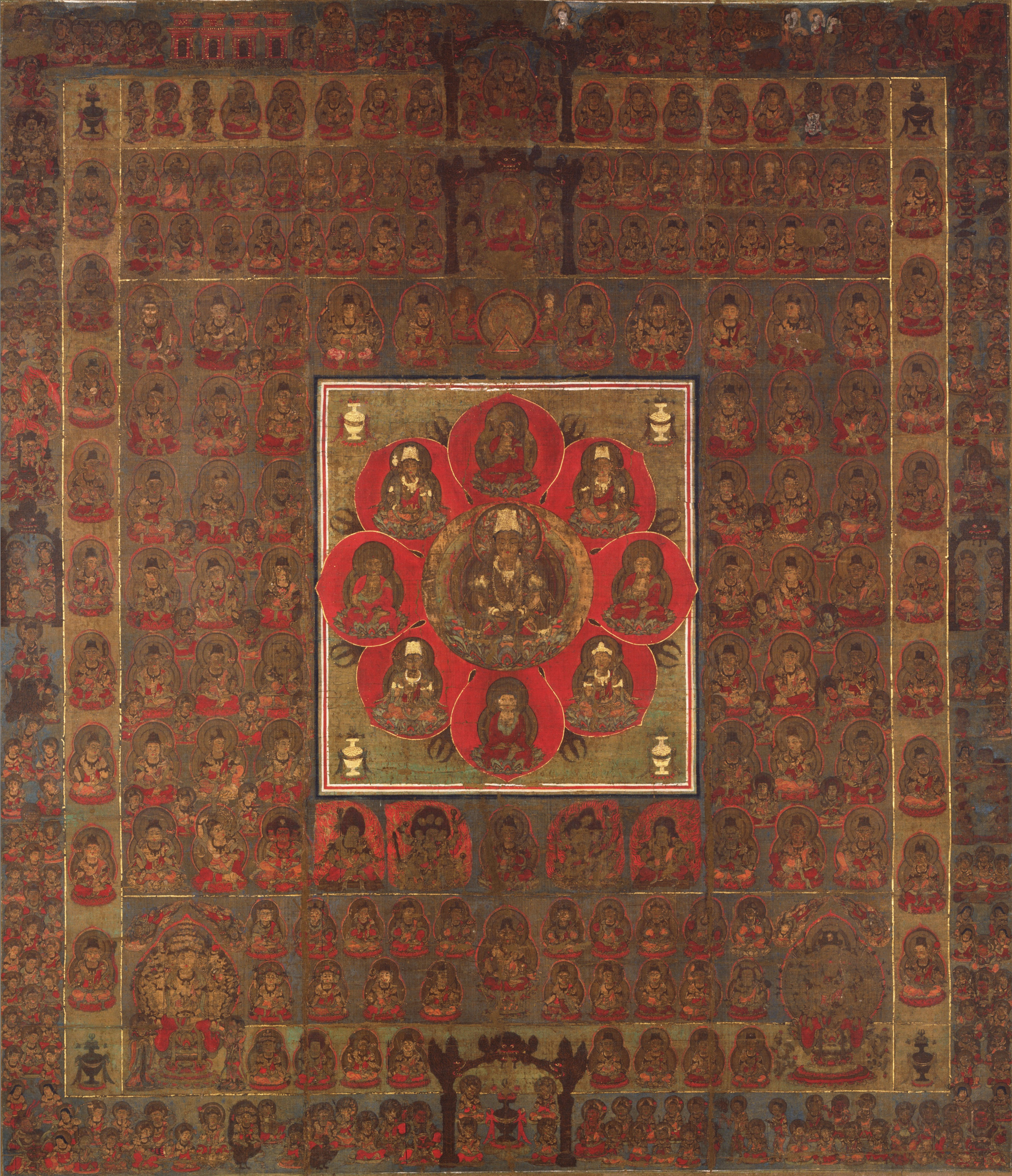 Ryokai Mandala, Nara National Museum, Japan